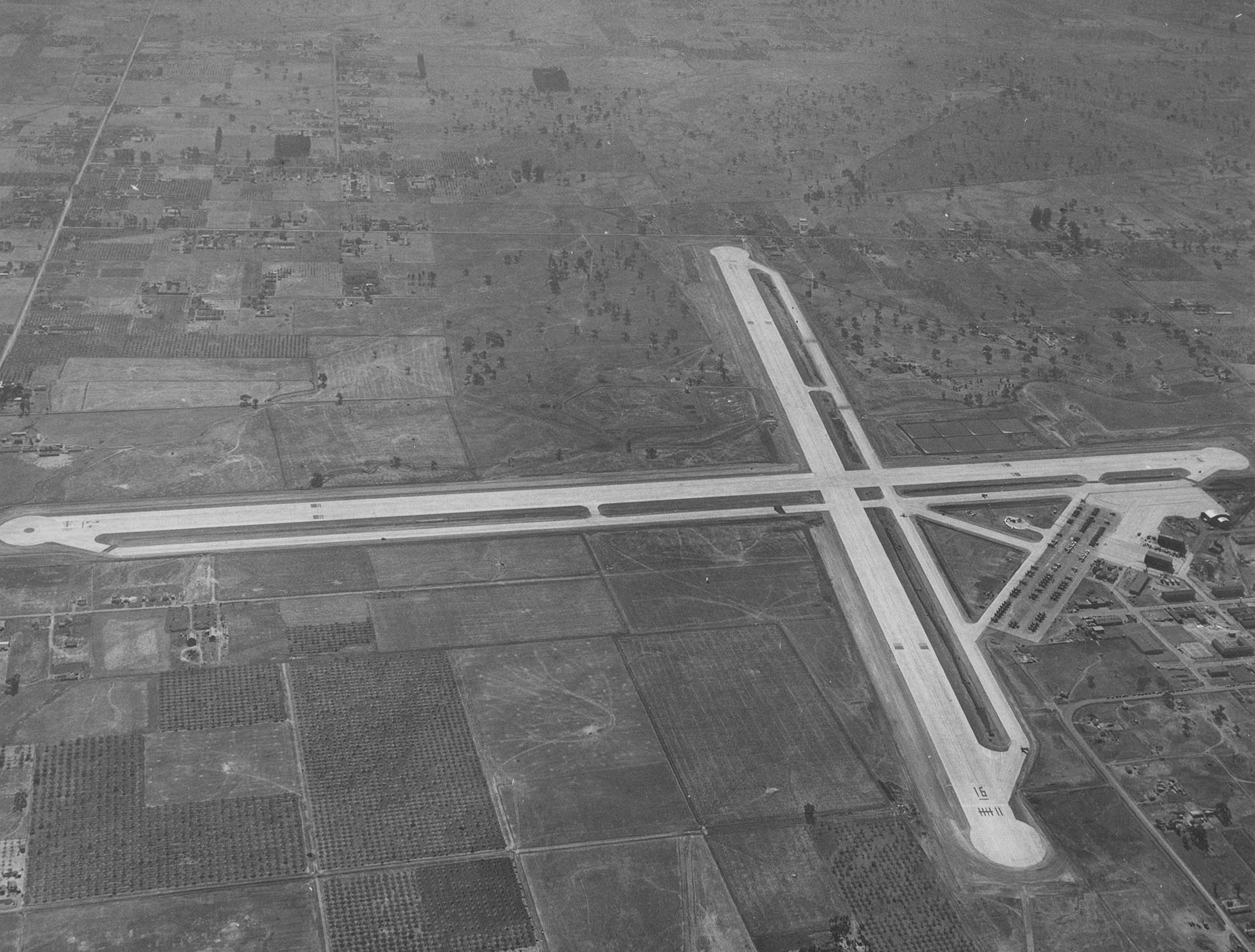 USN Photo 80-G-284027 - Naval Auxiliary Landing Field Santa Rosa from 4,000 feet up, looking South on October 11, 1944.